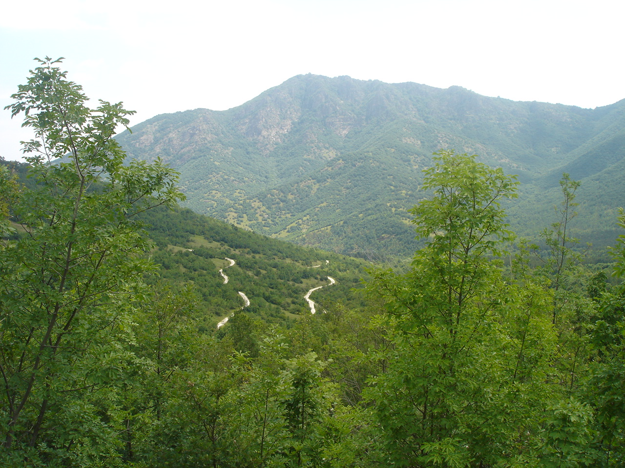 Babuna mountain, Macedonia